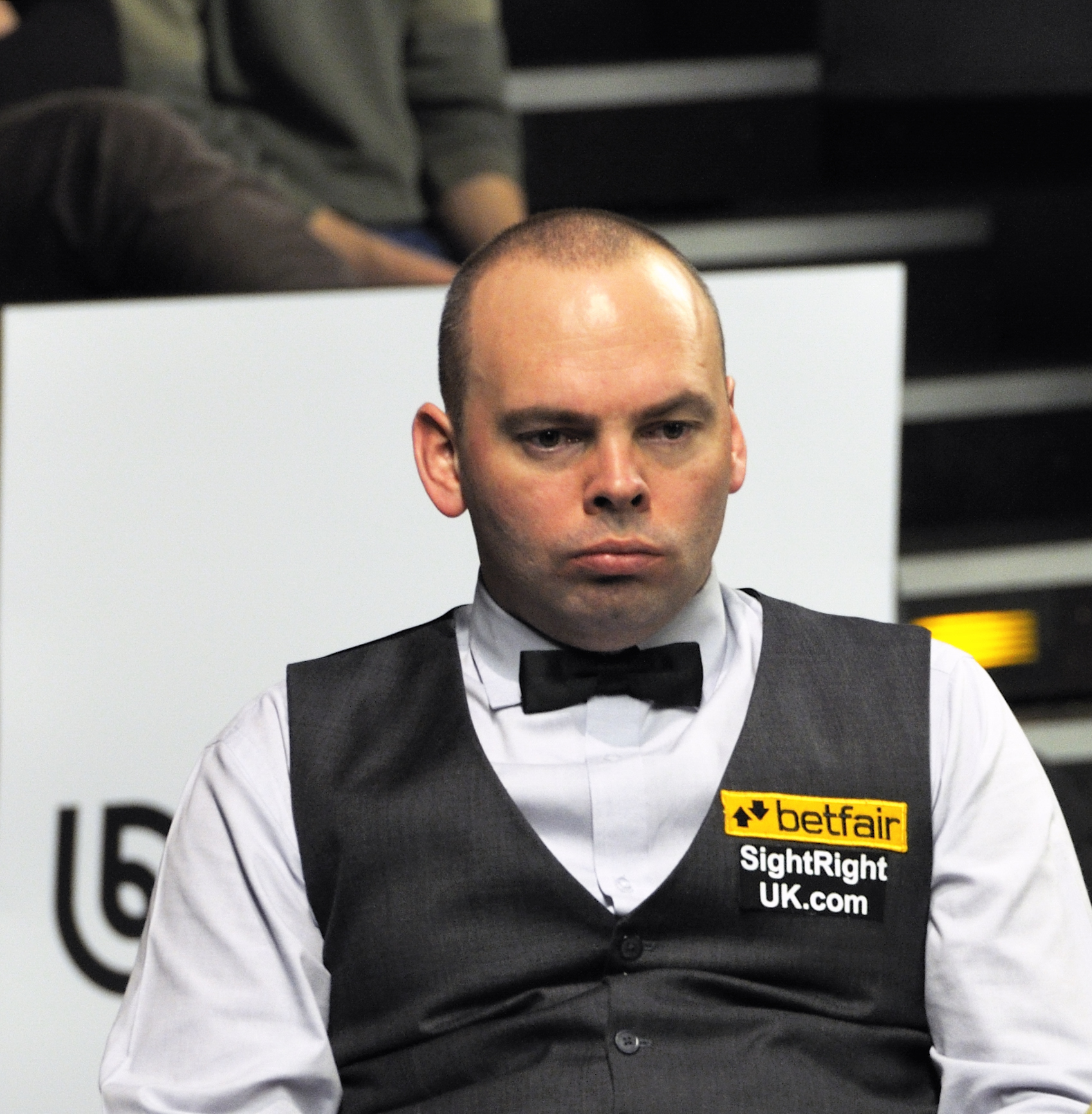 Picture taken in Berlin during the Snooker German Masters in 2013. Stuart Bingham.